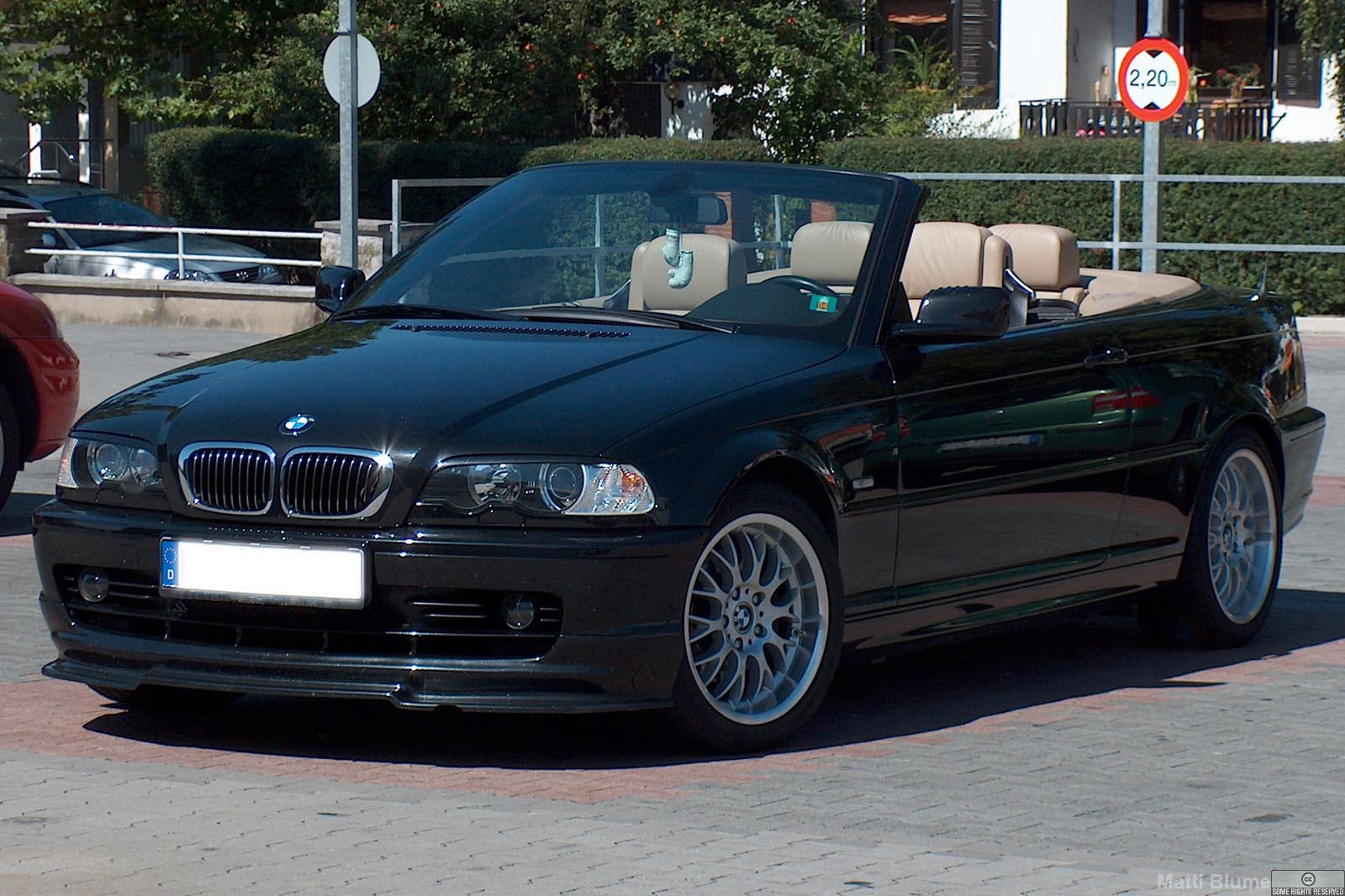 BMW Series 3 Convertible